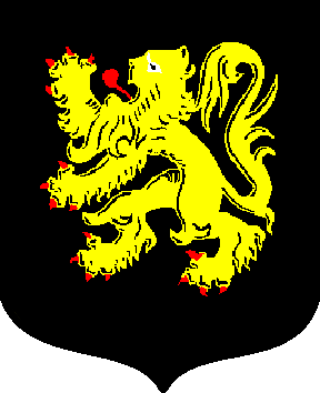 Armes of the Duchy of Brabant